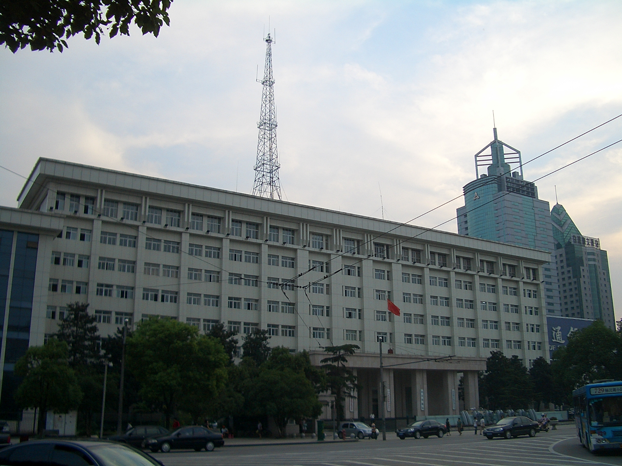 The Wuhan Railway Bureau headquarters, and associated agencies (such as the organization's Party committee), in their building in Wuhan's Hongshan Square